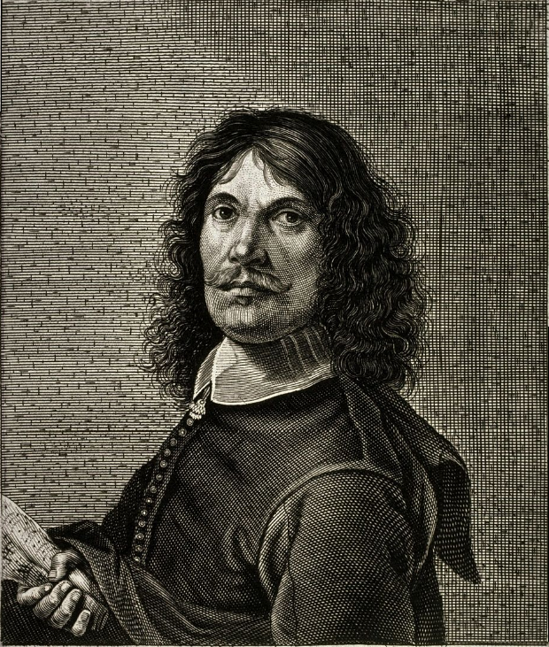 Portrait of Nicolaes Knüpfer.